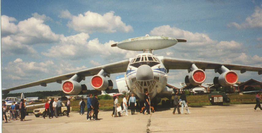 A-50, foto an der Maks 1997